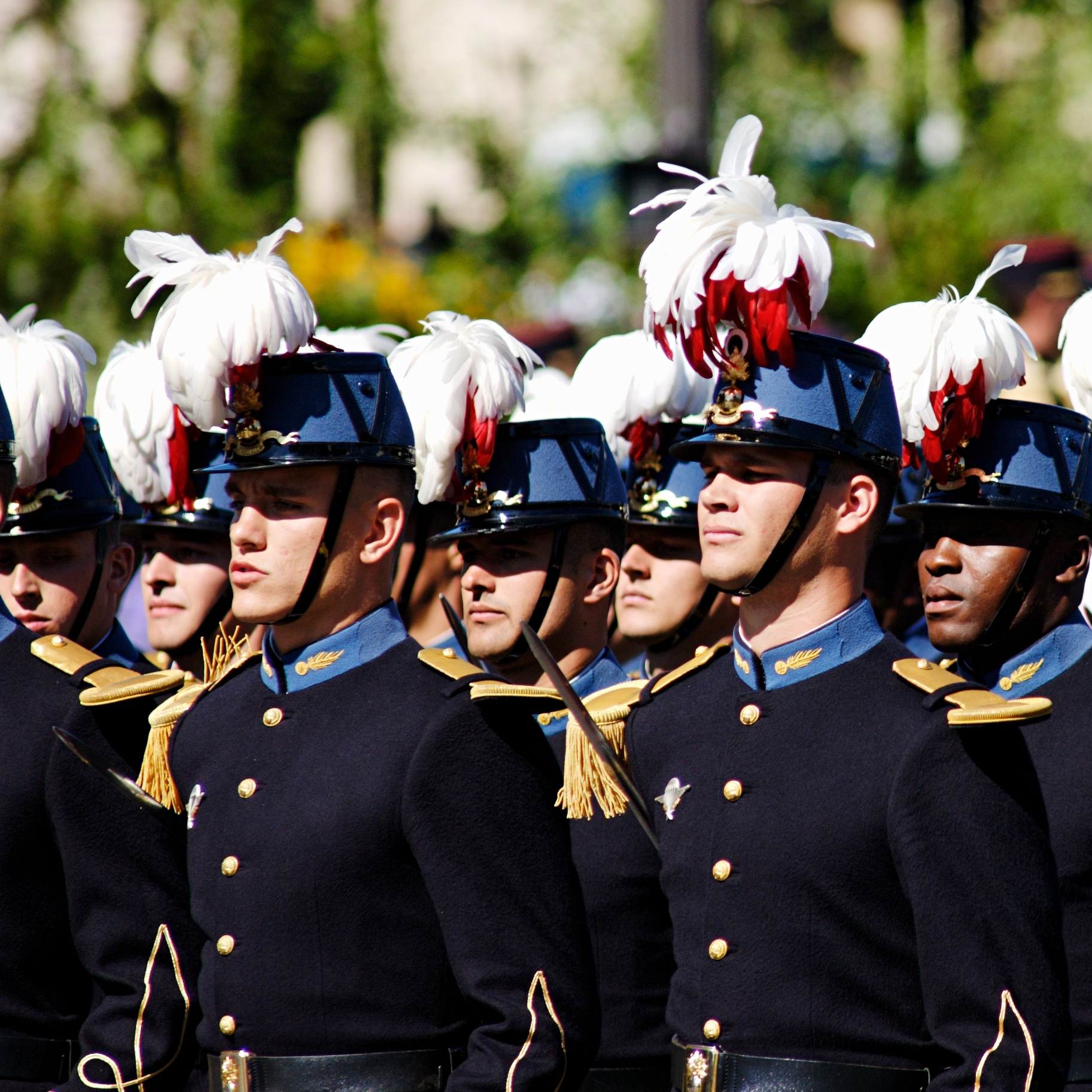 Lieutenants of the First Battalion, Bastille Day 2008 military parade on the Champs-Élysées, Paris.